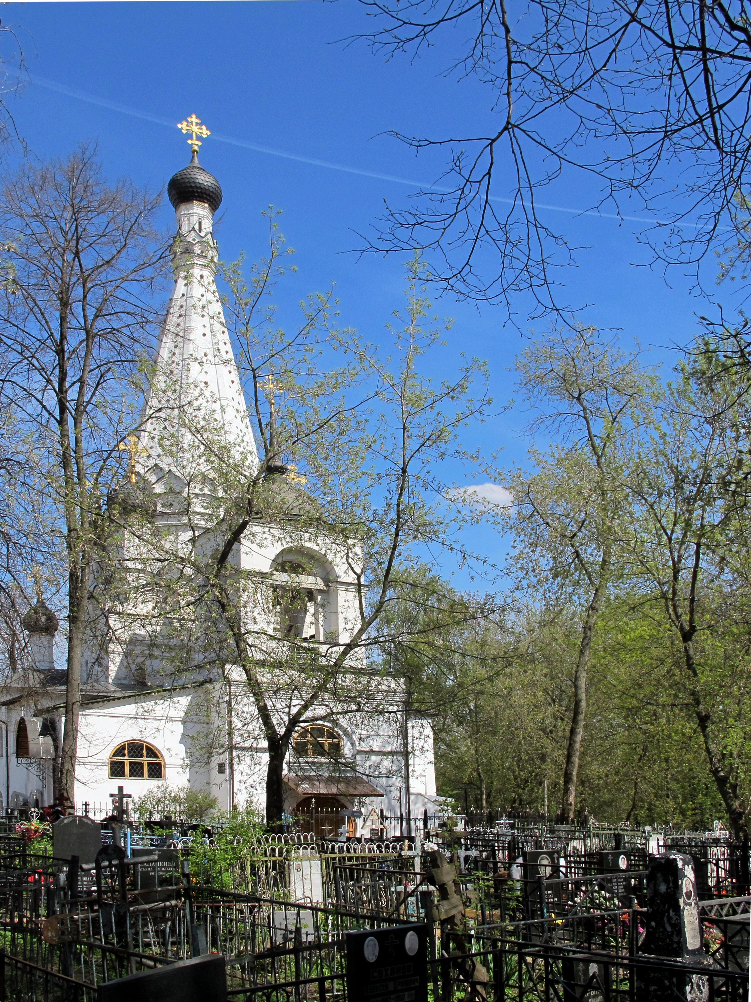 Church of the Protection of the Theotokos (Medvedkovo; Moscow; 2013-05-09).